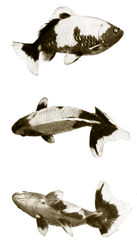 Animal - Fish - Varieties of Goldfish - Wakin